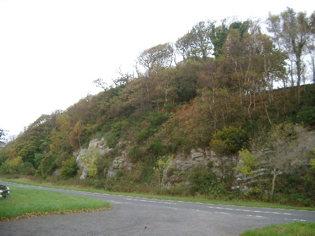 Road cutting, Barholm Wood. looking across the A75 at the Heughs of Barholm